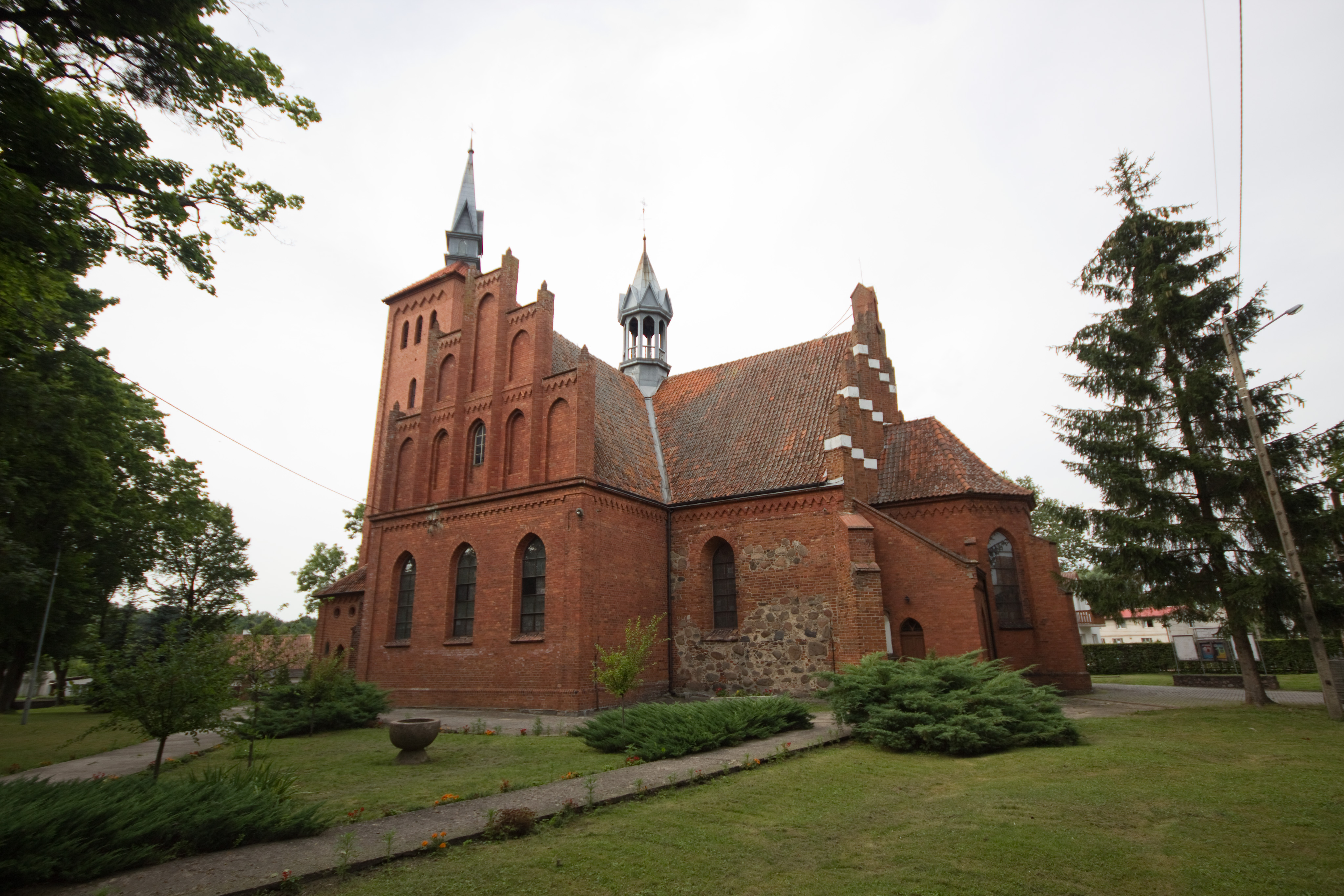 Church, Kolno, gmina Kolno, powiat olsztyński, Warmian-Masurian Voivodeship